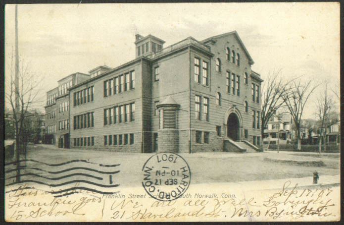 Postcard picture: Franklin Street School in Norwalk, Connecticut, part of the history of Education in Norwalk; postcard sent in 1907, according to store Web page. Postmarked 17 September 1907, 10 p.m., at Hartford, Connecticut.